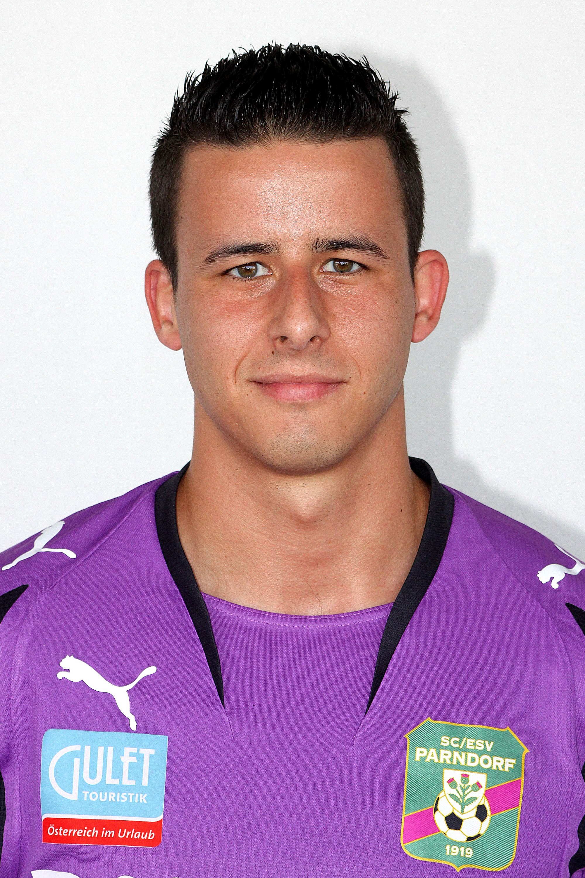 Teampresentation SC-ESV Parndorf at 2013-07-02 in Heidebodenstadion Parndorf. – The photo shows Stefan Krell. { - OpenStreetMap(Info)